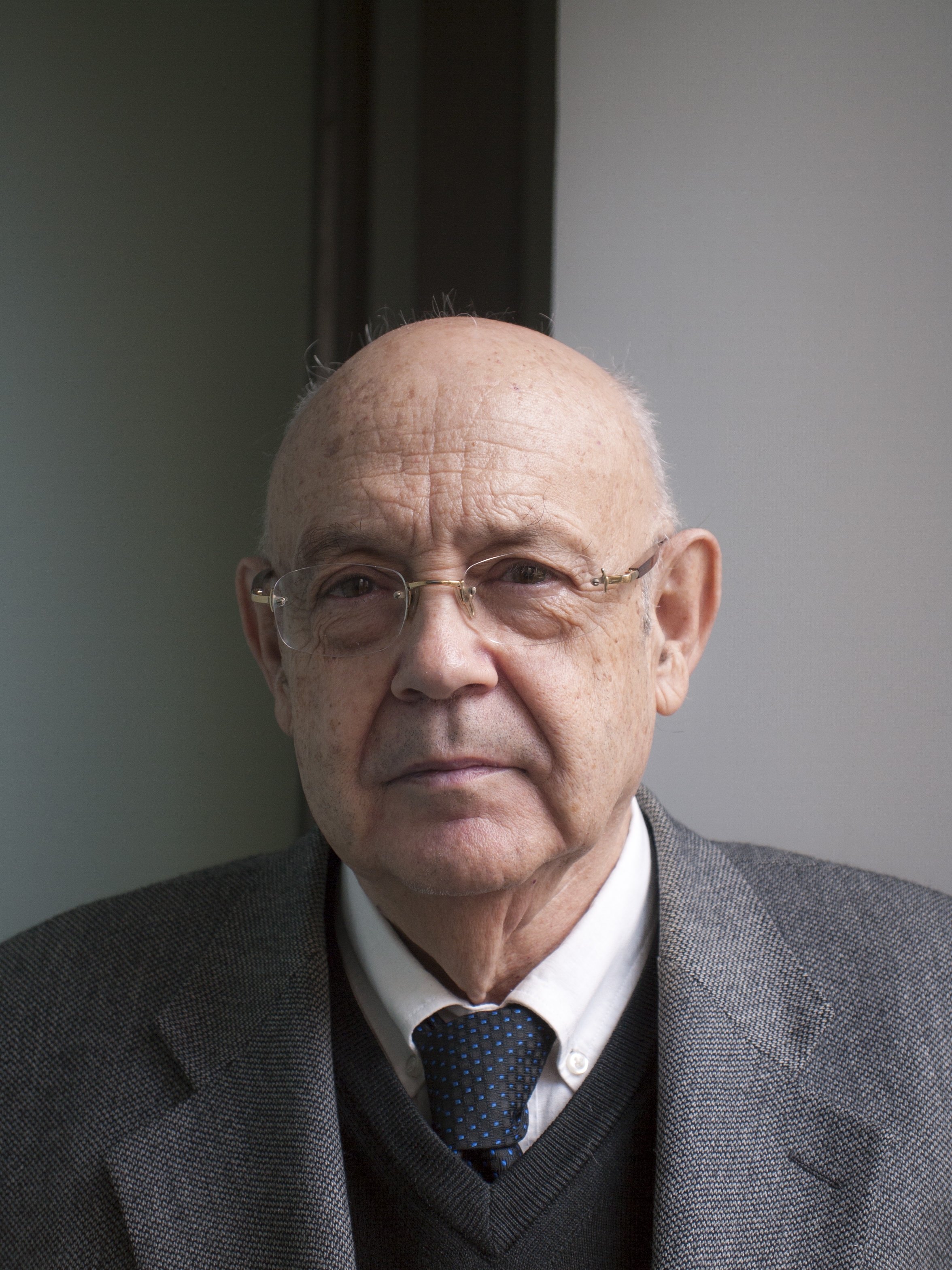 G.H. Guarch is a spanish book writer mainly known for his books about the armenian holocaust.